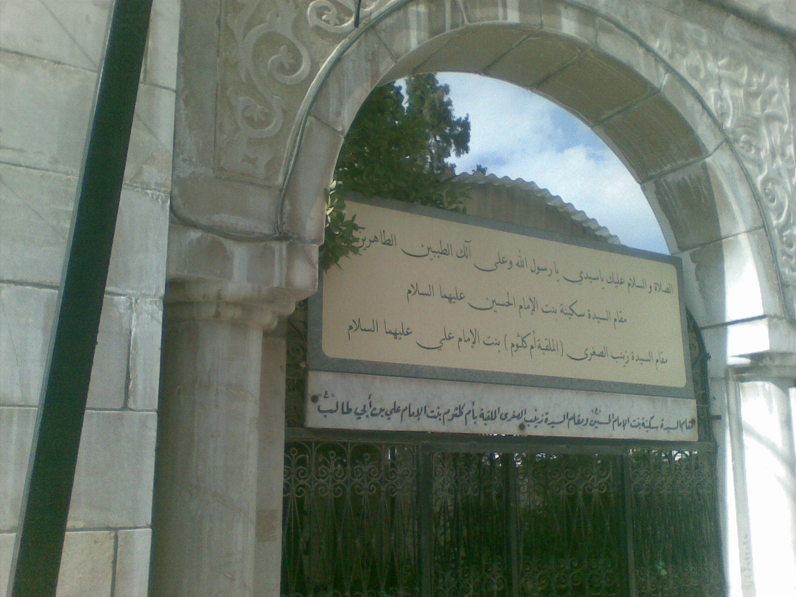 A photo of the shrine of Um Kulthum bint Ali and Sakinah bint Hussein, in the "Small Door" graveyard, Damascus.